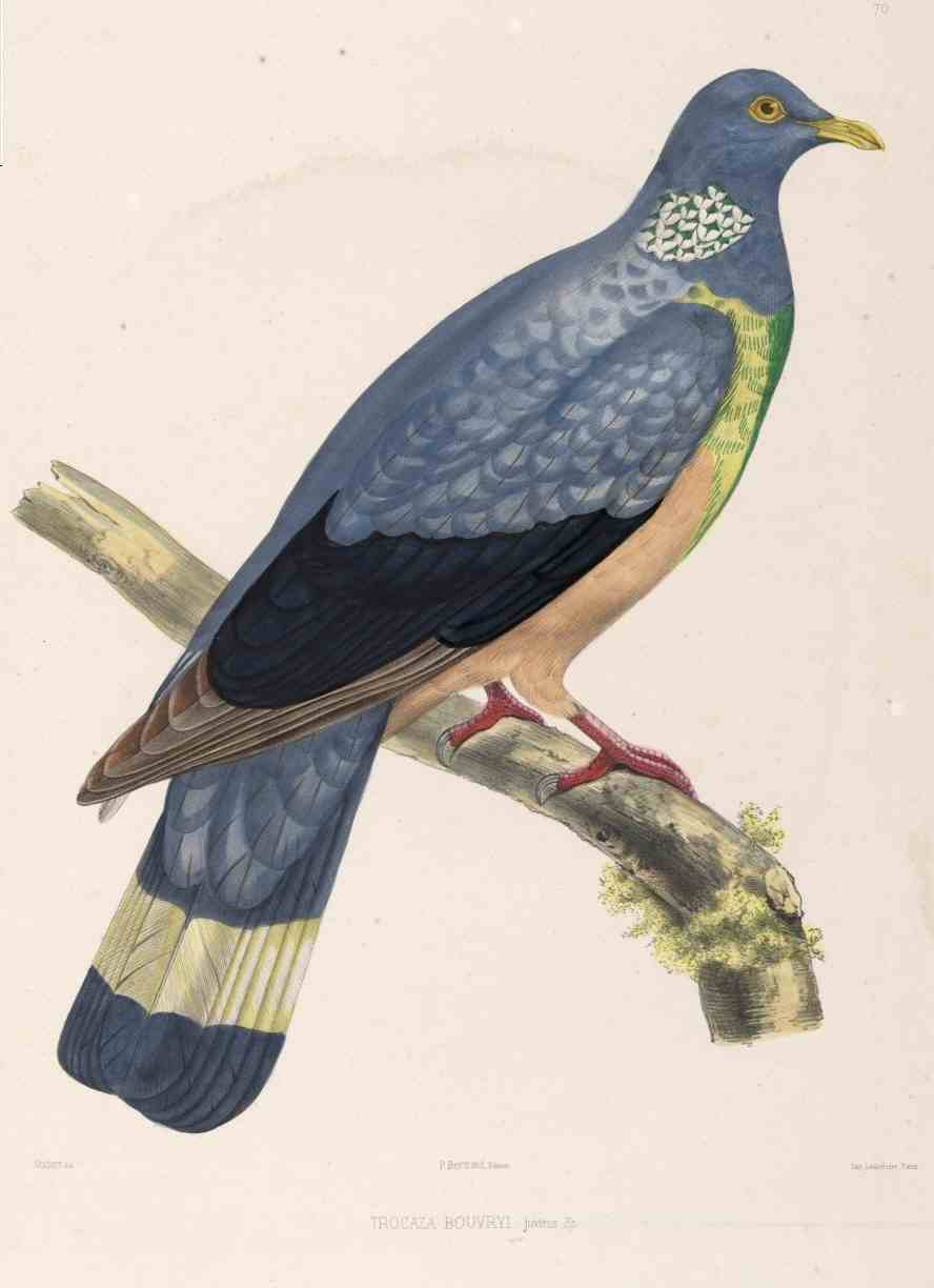 Trocaza bouvryi = Columba trocaz